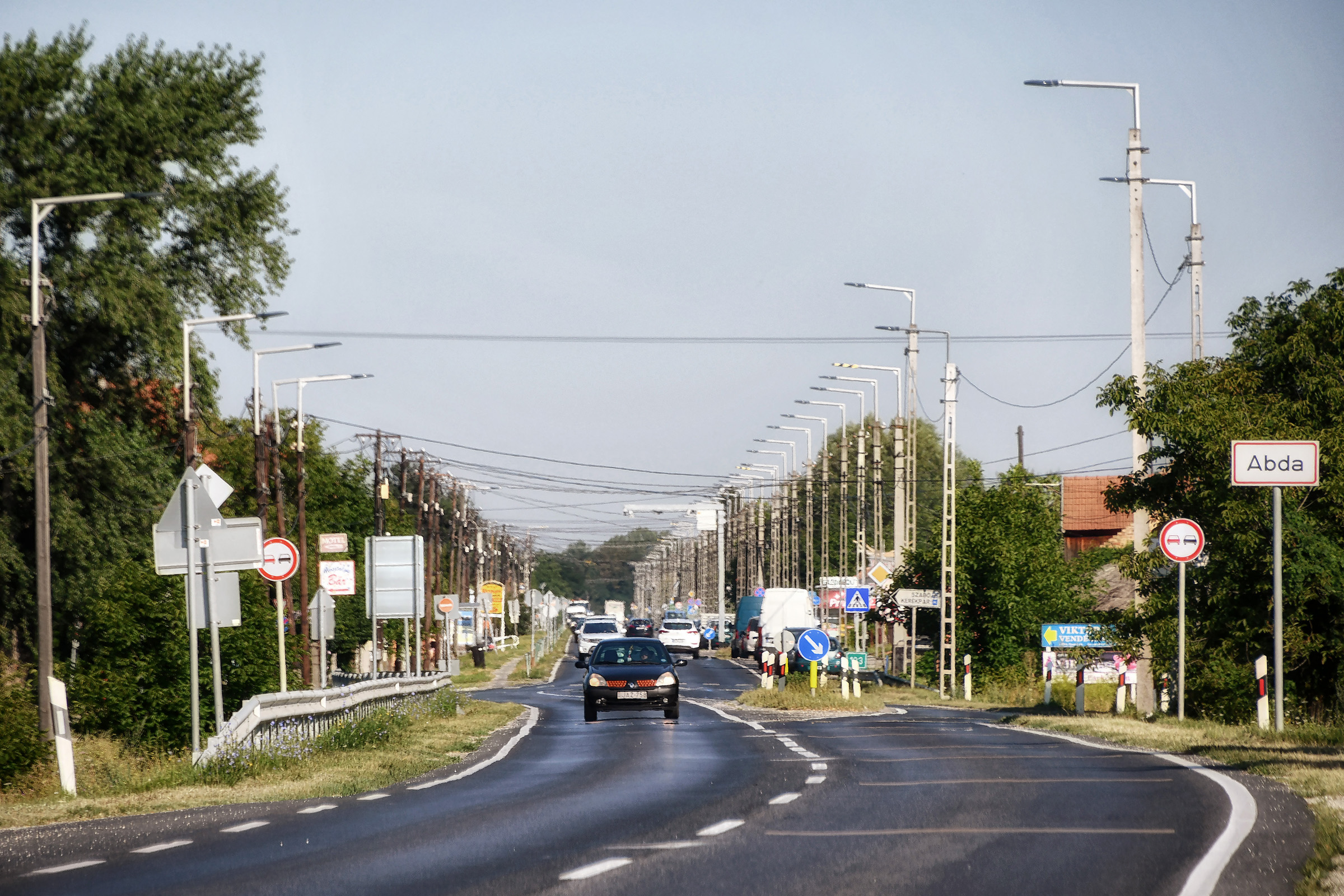 The Route 1 by Abda, Hungary